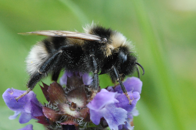 Bombus subterraneus from Commanster, Belgian High Ardennes .